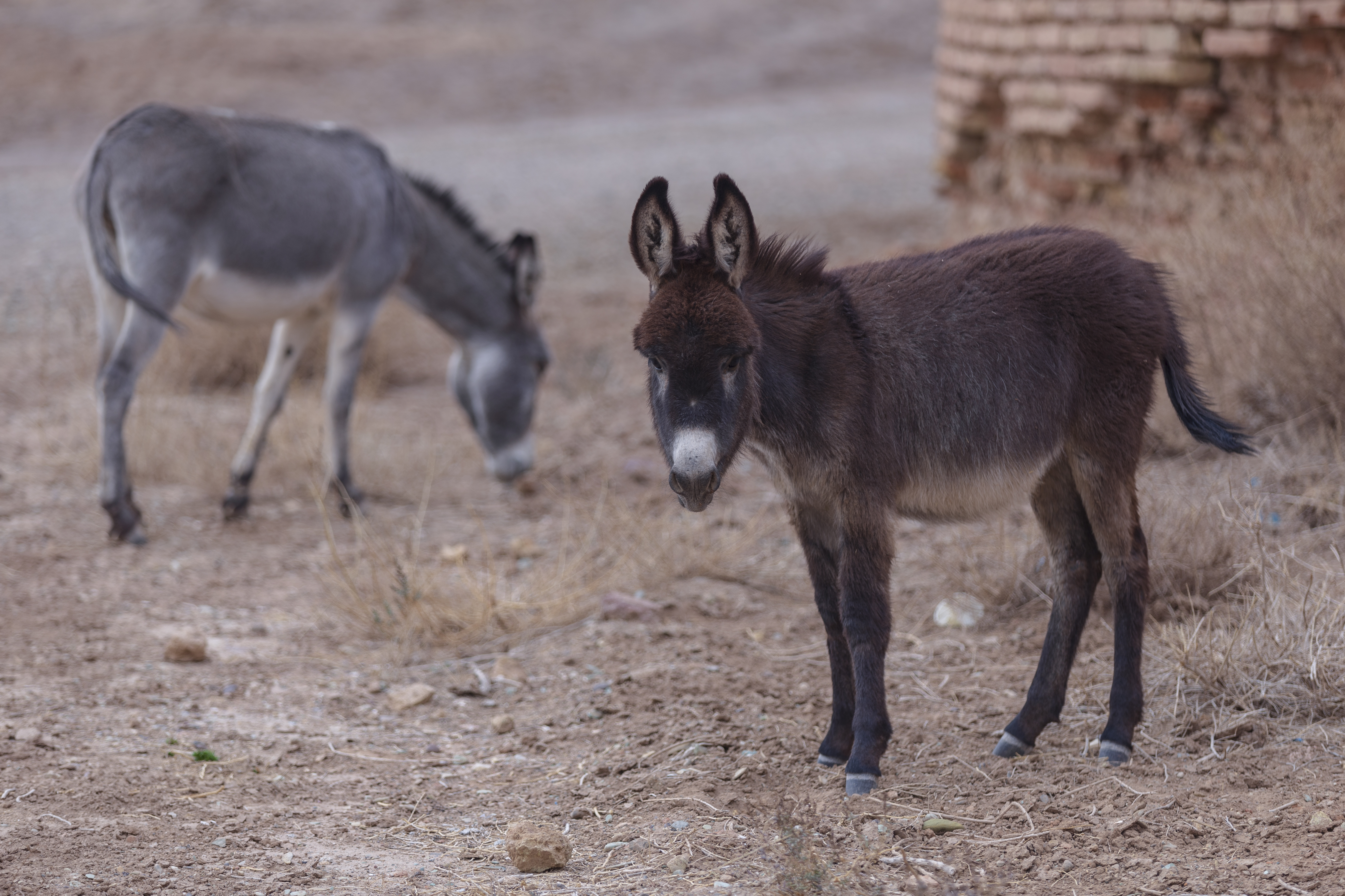 The donkey or ass is a domesticated member of the horse family, Equidae.